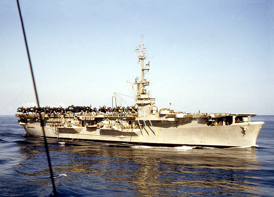 The U.S. Navy escort carrier USS Sicily (CVE-118) underway, with Grumman AF-2S and AF-2W Guardians of Anti-Submarine Squadron 931 (VS-931) on deck, circa in October 1952, en route to Hawaii.